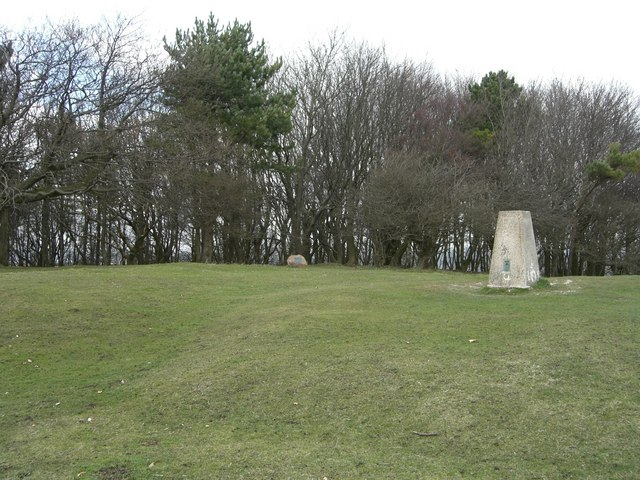 Blackcap, the top